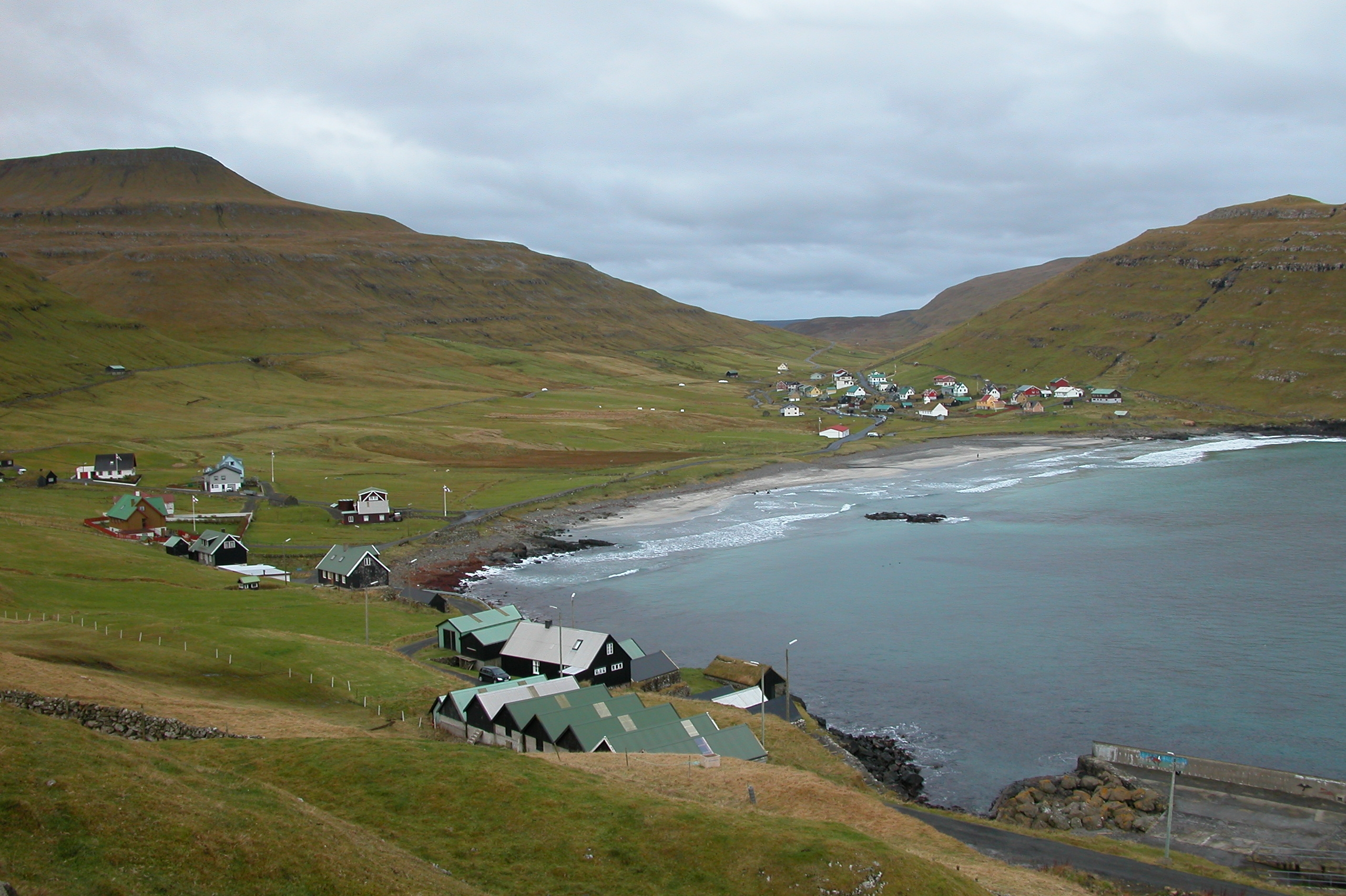 Húsavík on Sandoy, Faroe Islands